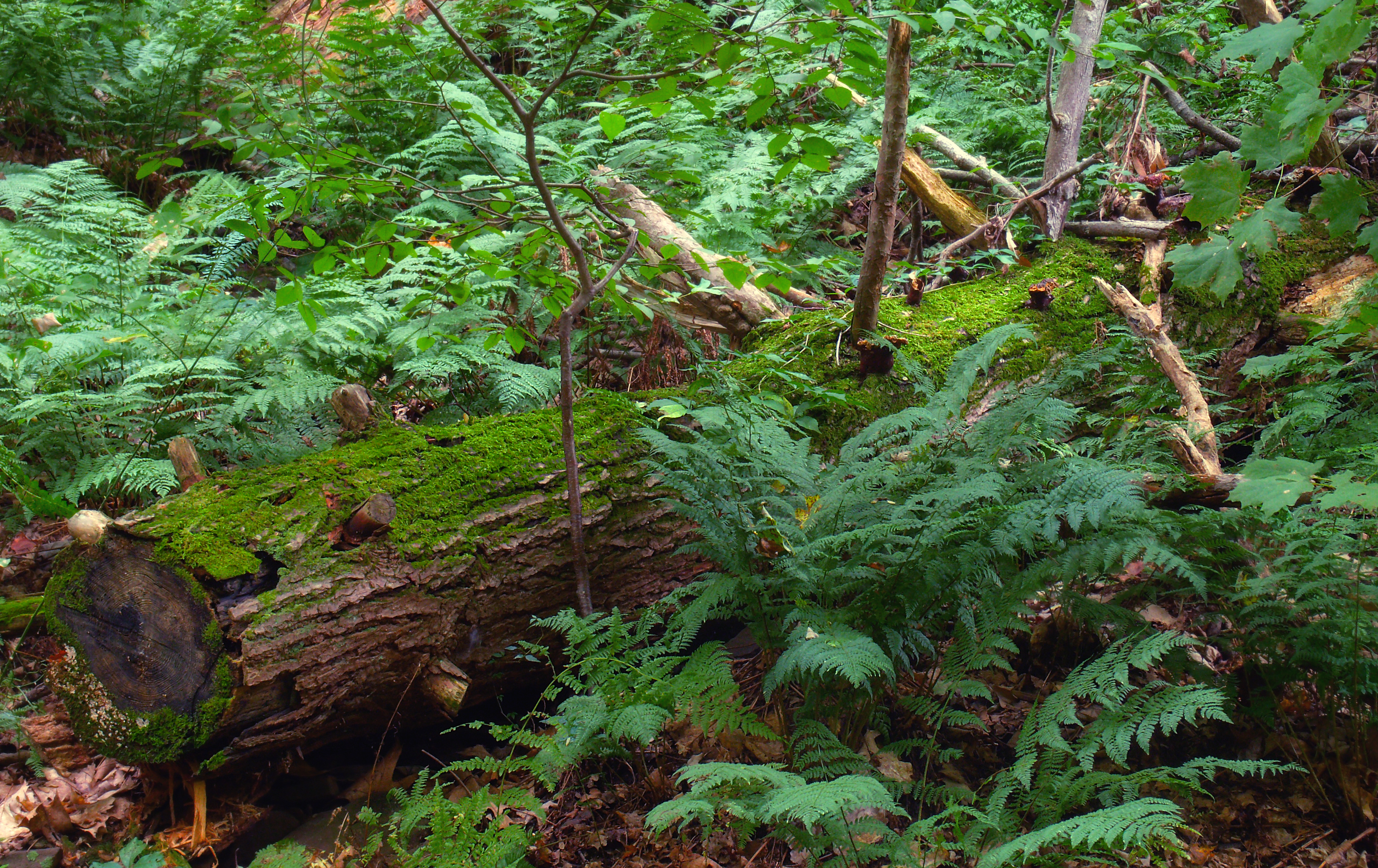 Moss-covered hemlock log near the Boyd R. Keller Reservoir, Wayne Township, Clinton County, along the east flank of Mount Logan.